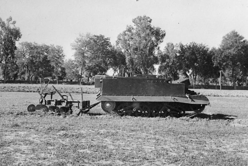 Military Assistance With Agriculture in India, 1946 Trials of a three-furrow plough built in the workshop of the Royal Indian Electrical and Mechanical Engineers at Risalpur. The plough is drawn by a Universal Carrier.